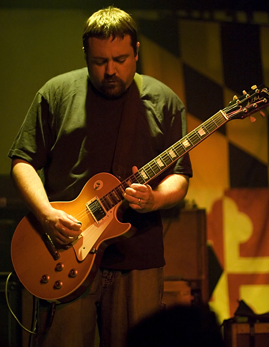 Tim Sult, lead guitarist of the American Hard Rock band, ClutchClutch